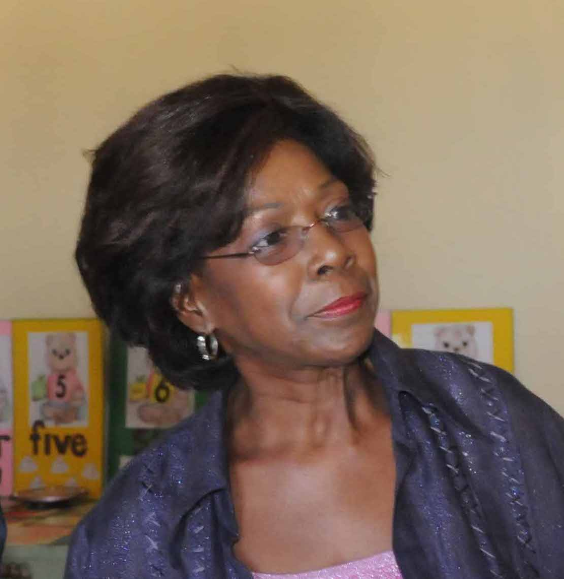 091120-N-7353K-034 OCHO RIOS, Jamaica (Nov. 20, 2009) Isiah Parnell, Charge d' Affaires at the U.S. Embassy in Jamaica, and Lorna Golding, first lady of Jamaica, speak with Capt. Rodelio Laco, commander of Combined Task Group 40.7, at the Fern Grove Basic School in Ocho Rios, Jamaica. Laco and a contingent of Sailors and Marines from the amphibious assault ship USS Wasp (LHD 1) distributed back packs and teddy bears to the children at the school. Wasp is deployed on Southern Partnership Station-Amphibious, part of the Partnership of the Americas maritime strategy. (U.S. Navy photo by Mass Communication Specialist 2nd Class Christopher Koons/Released)